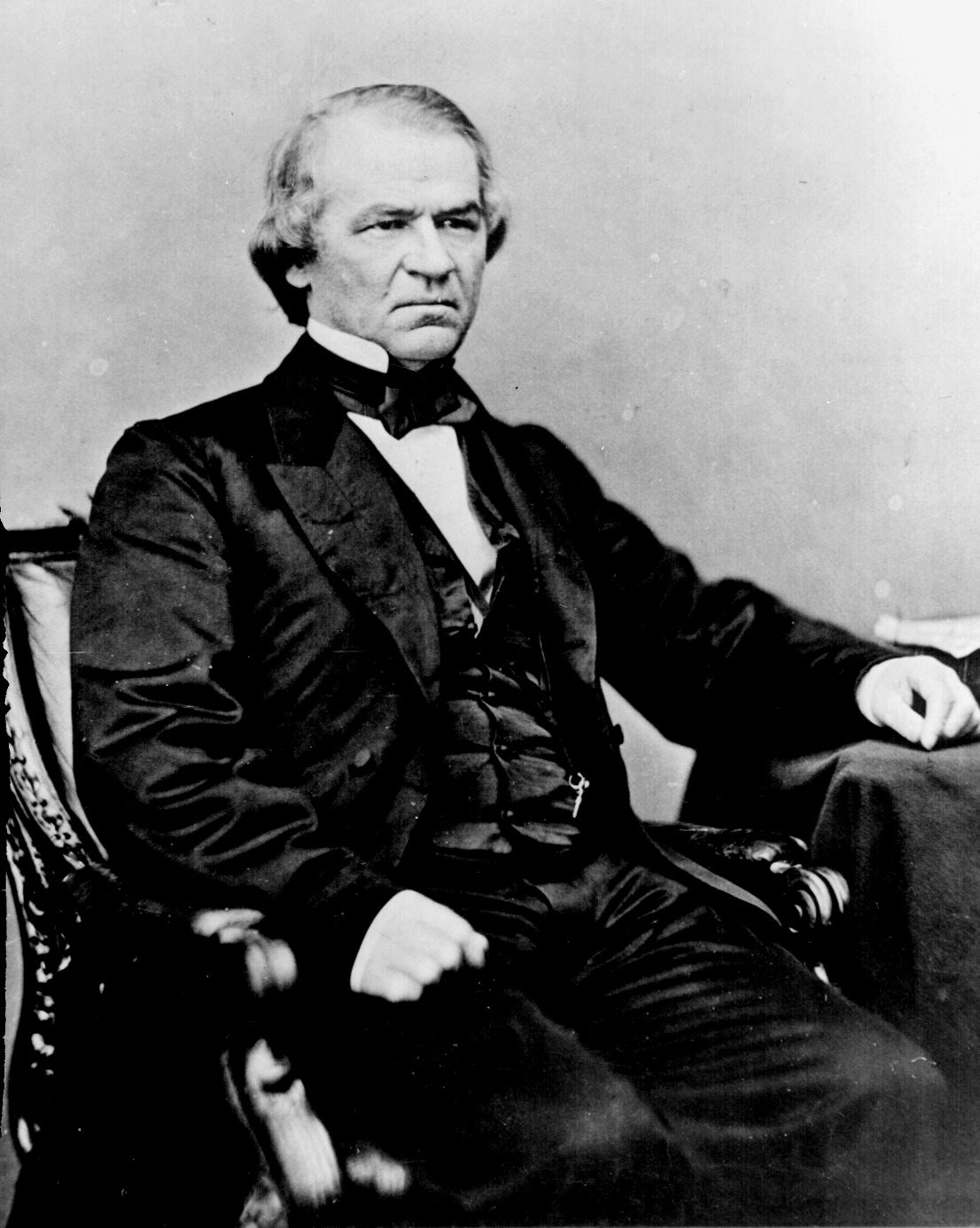 President of the United States of America Andrew Johnson